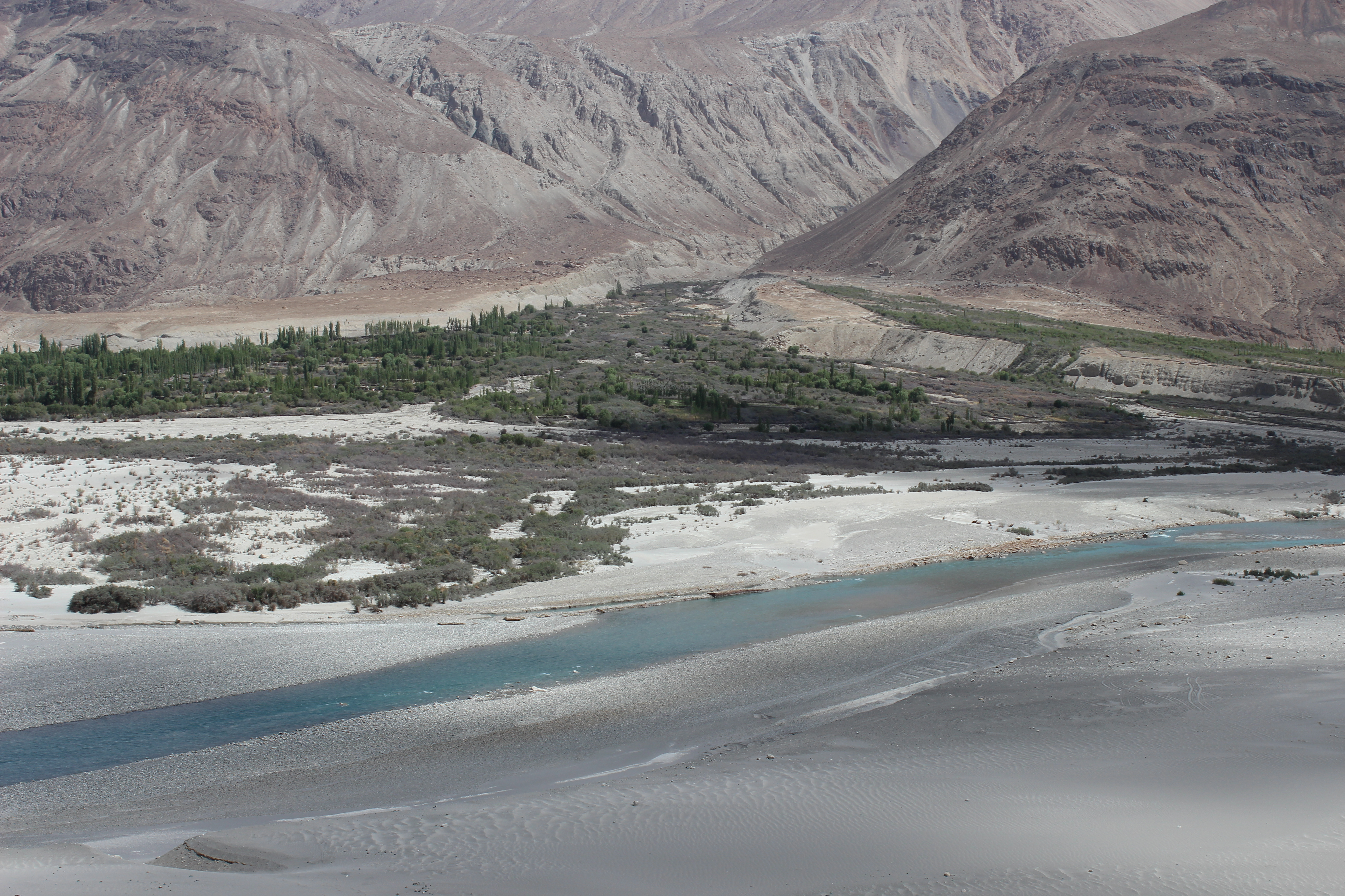 Nubra River flows through the Himalayan towns of Diskit, Hunder and Shylok of North eastern Kashmir. Located between the cold and Arid deserts, it becomes the only source of freshwater to the Nubra Valley.